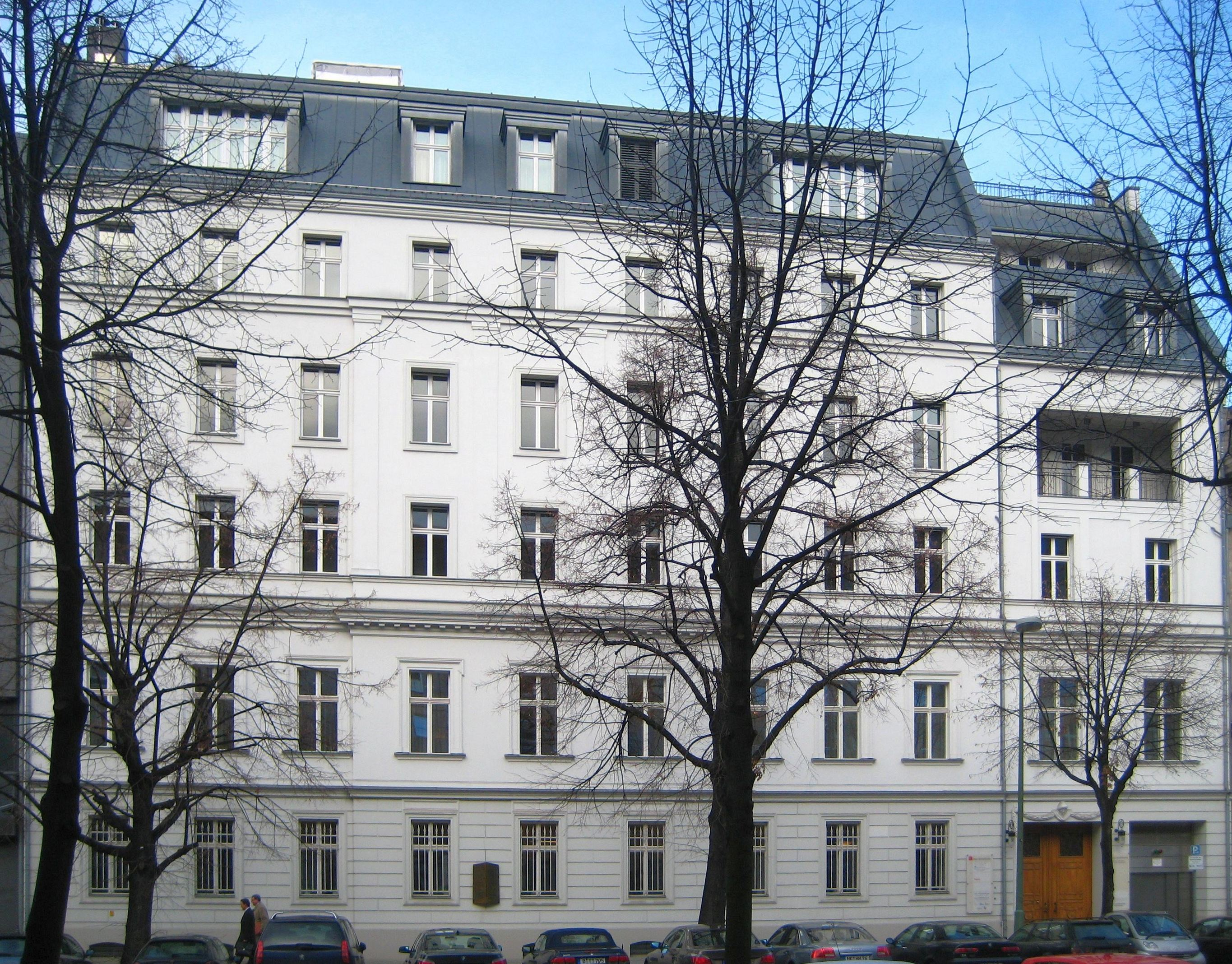 The former residential and commercial building of the Mendelssohn family in Berlin-Mitte, Jägerstraße 51; built before 1789, it was rebuilt around 1870 and around 1950 (when two stories were added); the building is landmarked